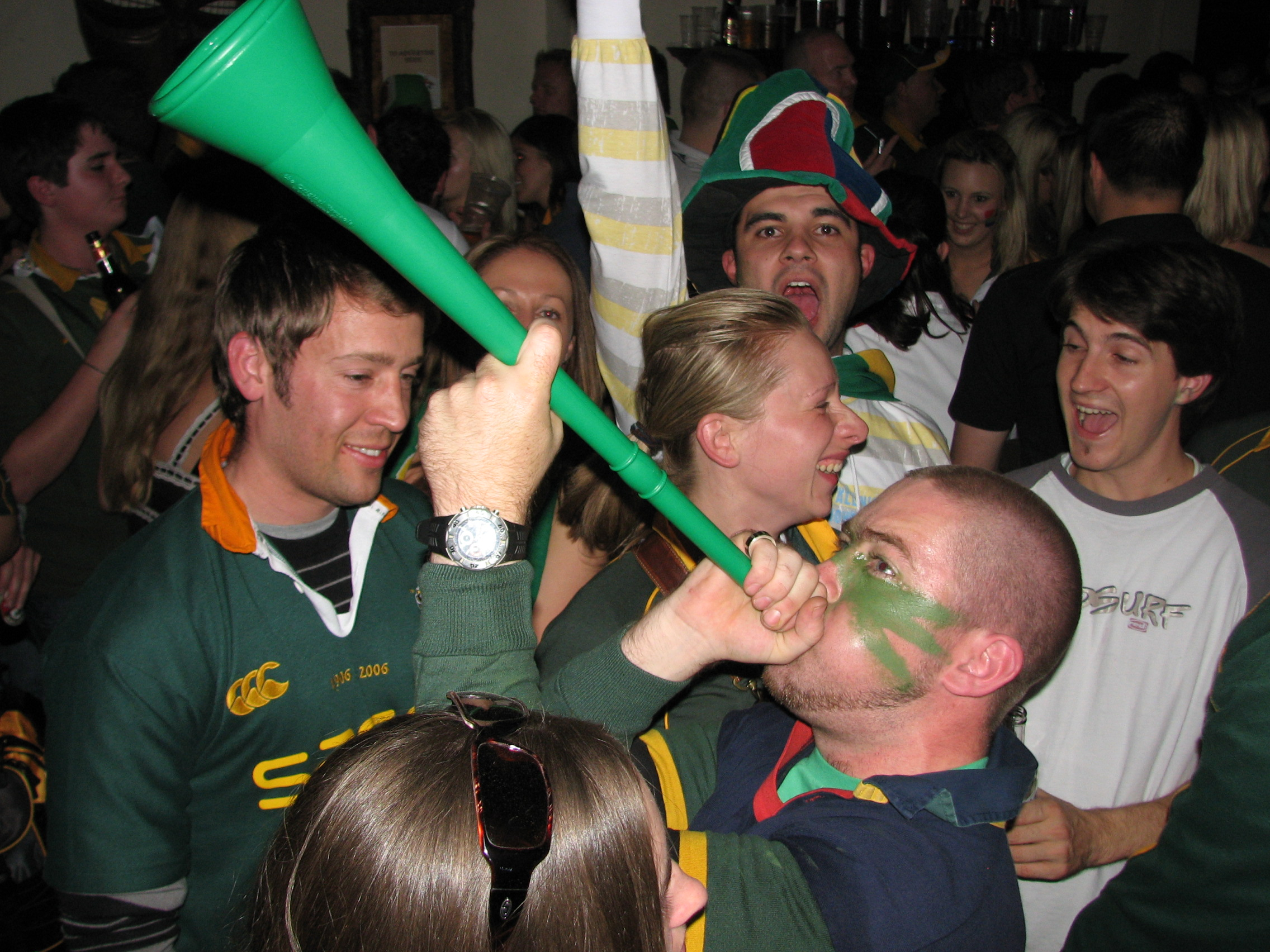 South Africa Rugby World Cup 2007 Winners Fiesta in London